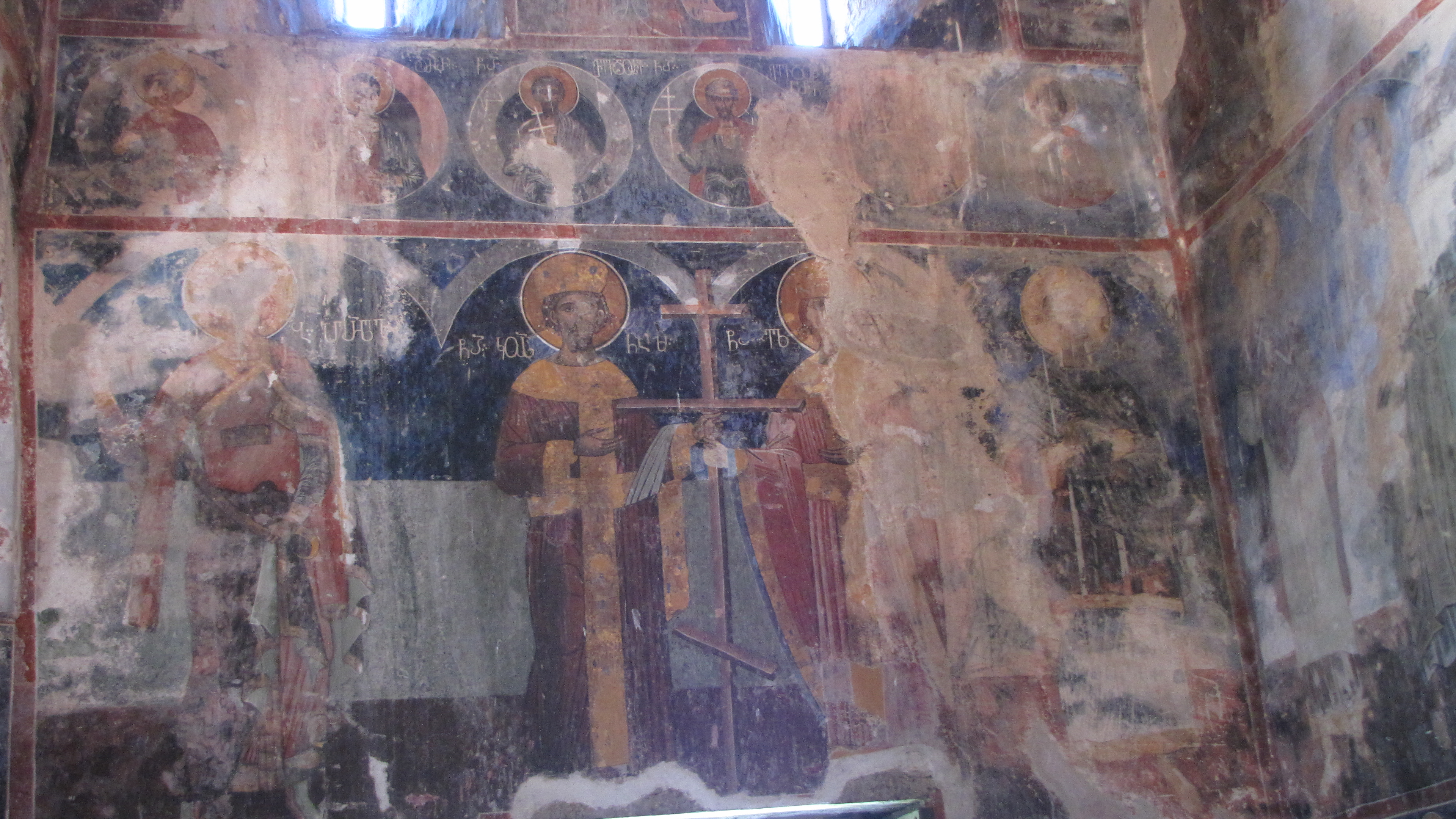 Church of the Archangels, Gremi